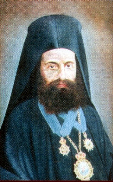 Iwakeim Georgiadis